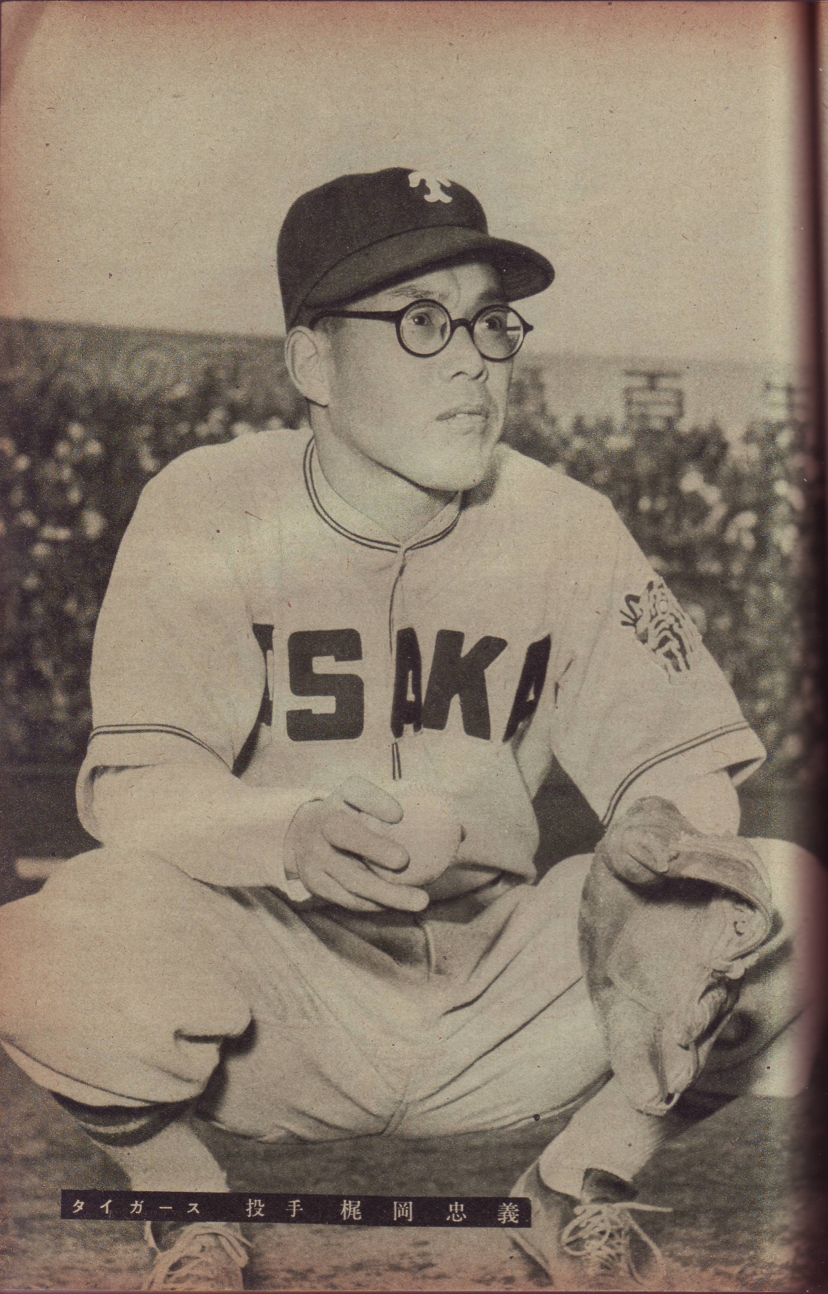 Tadayoshi Kajioka (Hanshin Tigers). taken in 1950.